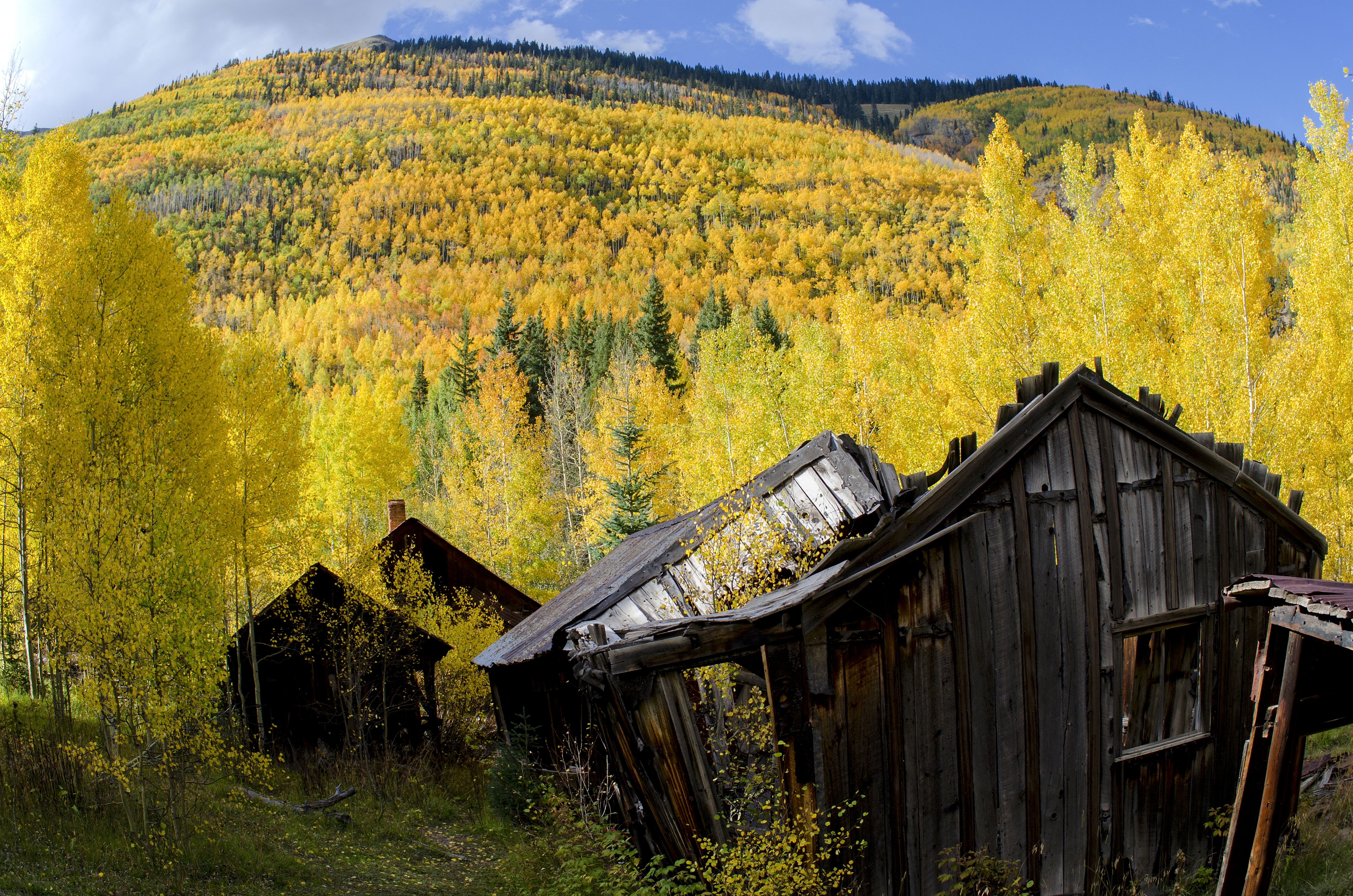 The leaves along US550 near Red Mountain Pass were at their peak a couple of days ago.